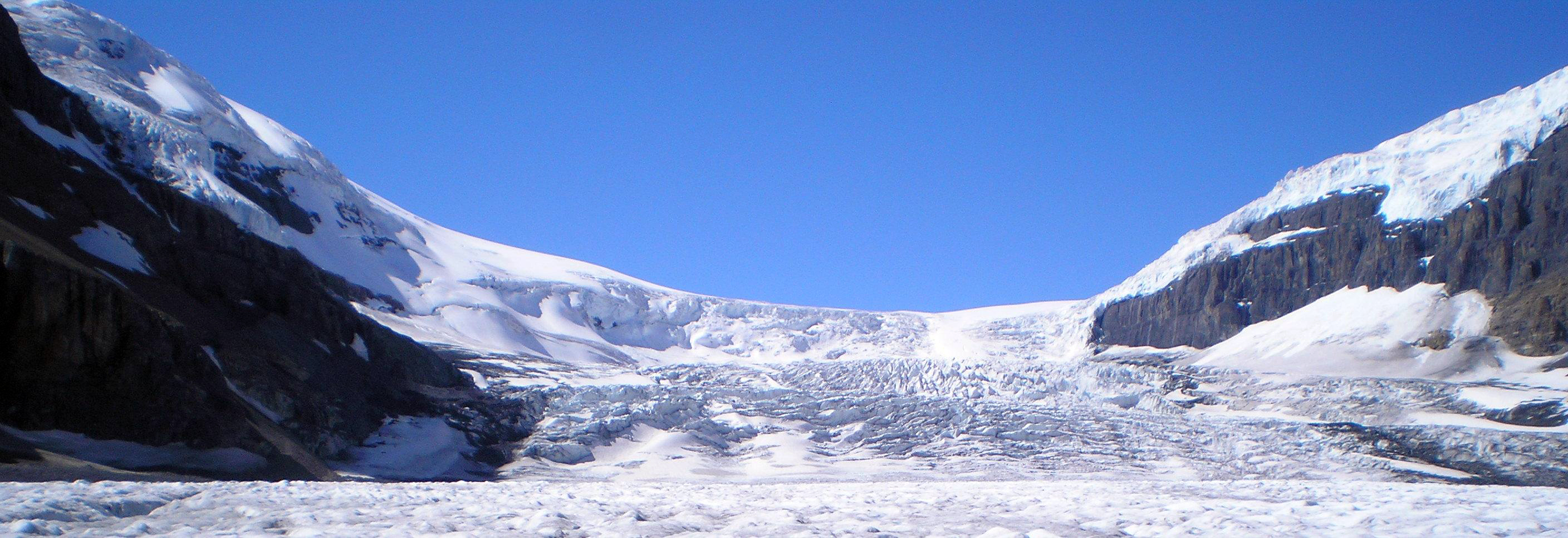 Athabasca Glacier.